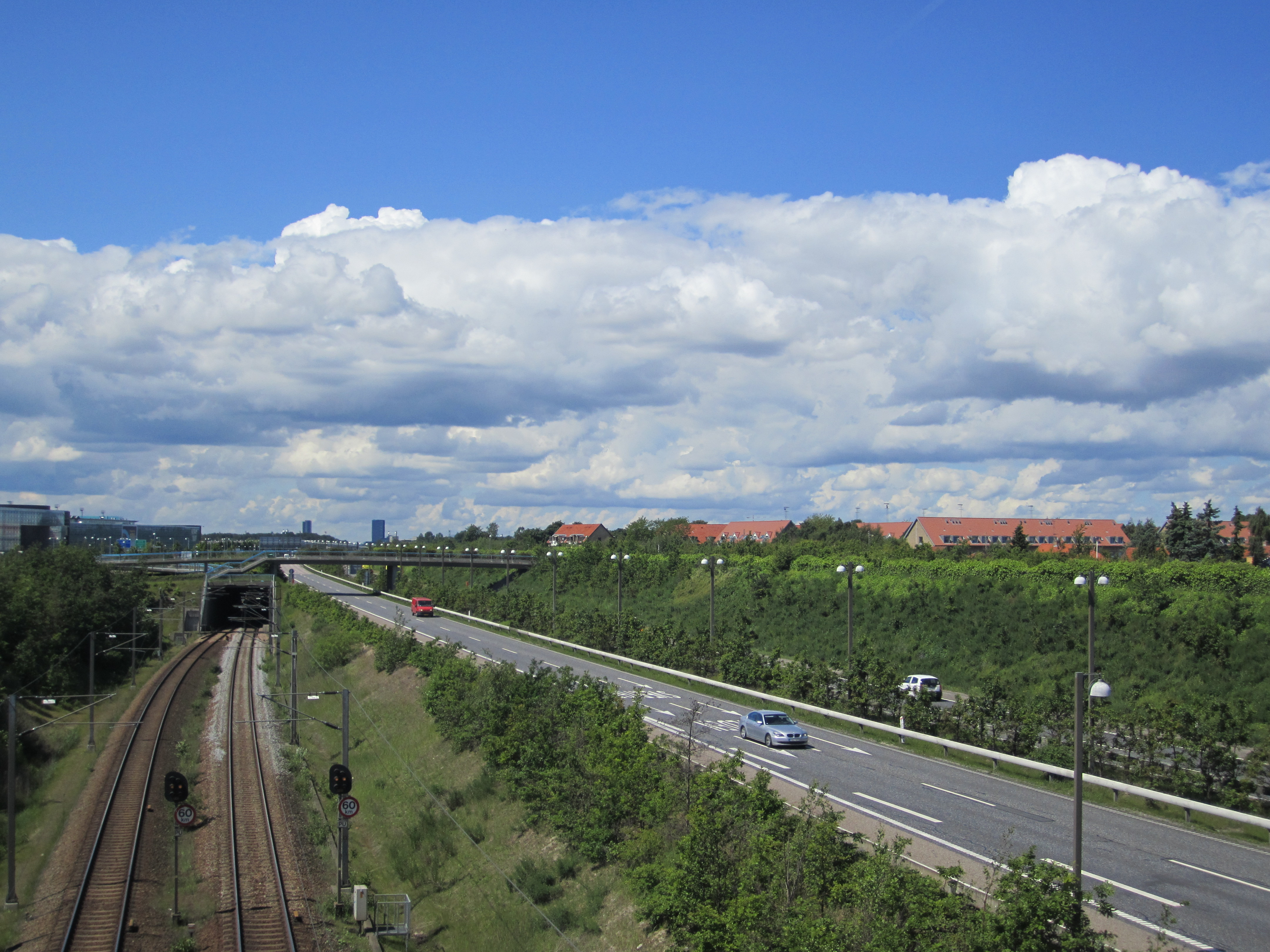 The Øresund Highway (Øresundsmotorvejen) in Copenhagen, Denmark